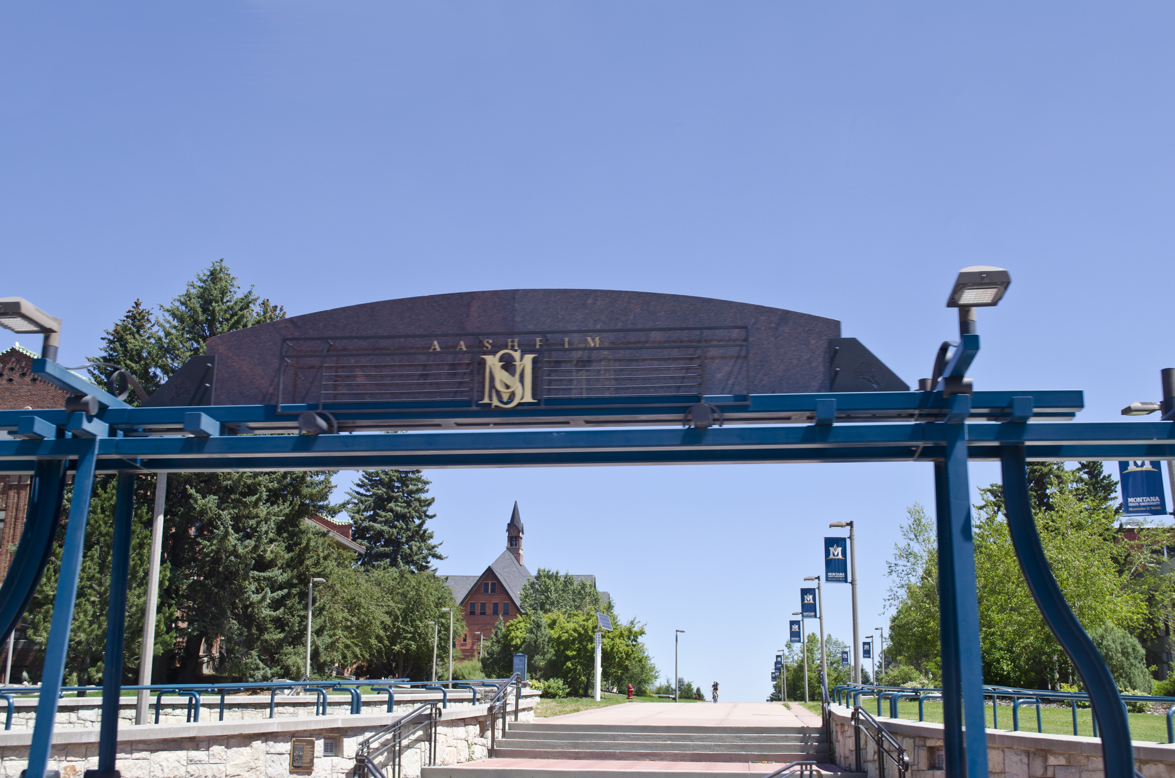 Looking east at the Aasheim Gate to Malone Centennial Mall on the campus of Montana State University in Bozeman, Montana. Torlief S. Aasheim was from Reserve, Montana, and graduated in 1938 with a bachelor's degrees in agronomy from MSU. He later earned a master's of science in agriculture, and was named director of the Montana Cooperative Extension Service. He retired in 1974, but continued to do research. He developed the chemical fallow, now a common agricultural practice throughout the United States, as a retiree. Aasheim was "Mr. MSU Fan", and he either established, re-established, re-energized, or refurbished a number of MSU traditions and landmarks. He paid to have the "M" on Mount Baldy refurbished in the 1990s, and whitewashing the "M" is now an annual pilgrimage for students. (There is also an "M Run" mini-marathon each year to it.) He also bought and installed the giant American flag in Brick Breeden Fieldhouse and pushed hard for all alumni and students to wear the big blue "Go Cat" buttons that are now omnipresent. During his lifetime, Aasheim received nearly every award MSU could give -- including an honorary doctorate in 1996. In 1997, Aasheim and his four brothers donated the Aasheim Gate to honor Sven and Marthea Aasheim -- Tor's parents who emigrated to the United States from Norway. The gate also honors all homesteaders in Montana history. Torlief Aasheim died in January 2007 at the age of 93.